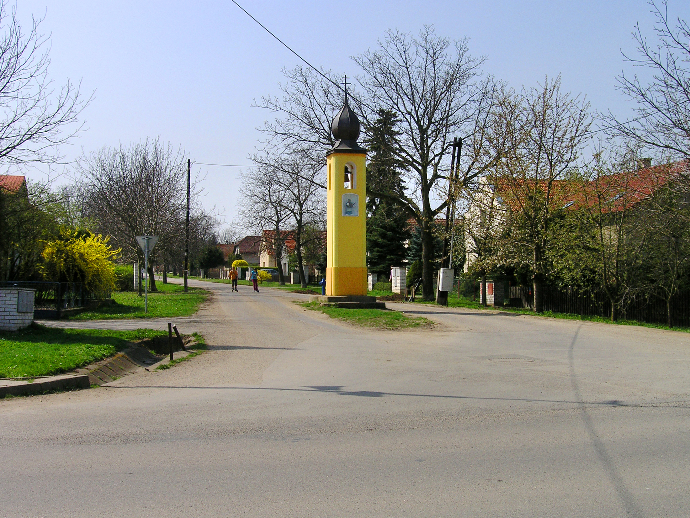 Common in Brázdim, Czech Republic